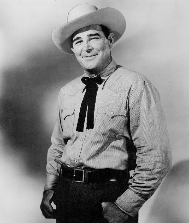 Photo of Rod Cameron as Nevada state trooper Rod Blake from the television program State Trooper.